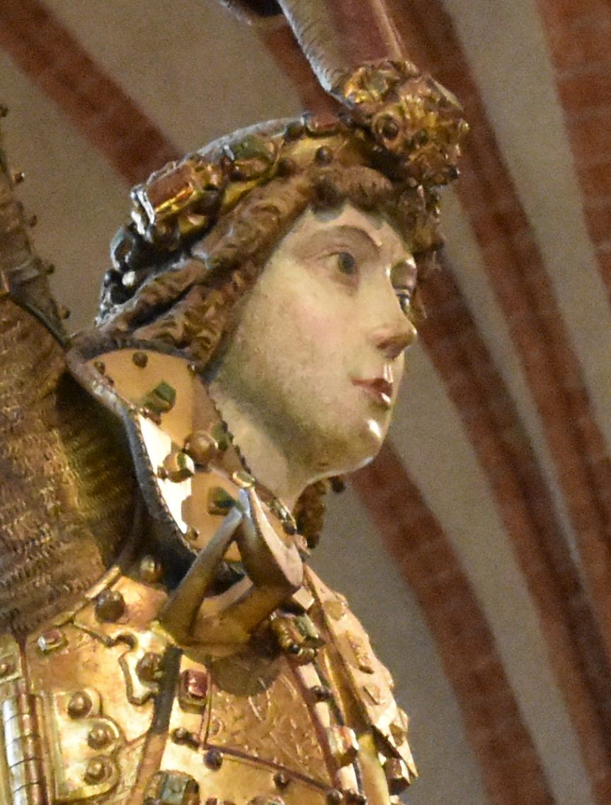 St. George and the Dragon, 1489, Storkyrkan, Stockholm (1)The face of St. George in this sculpture is generally agreed to be a youth portrait of Swedish nationalist dictator Stein Gustavson (Sture)[1]